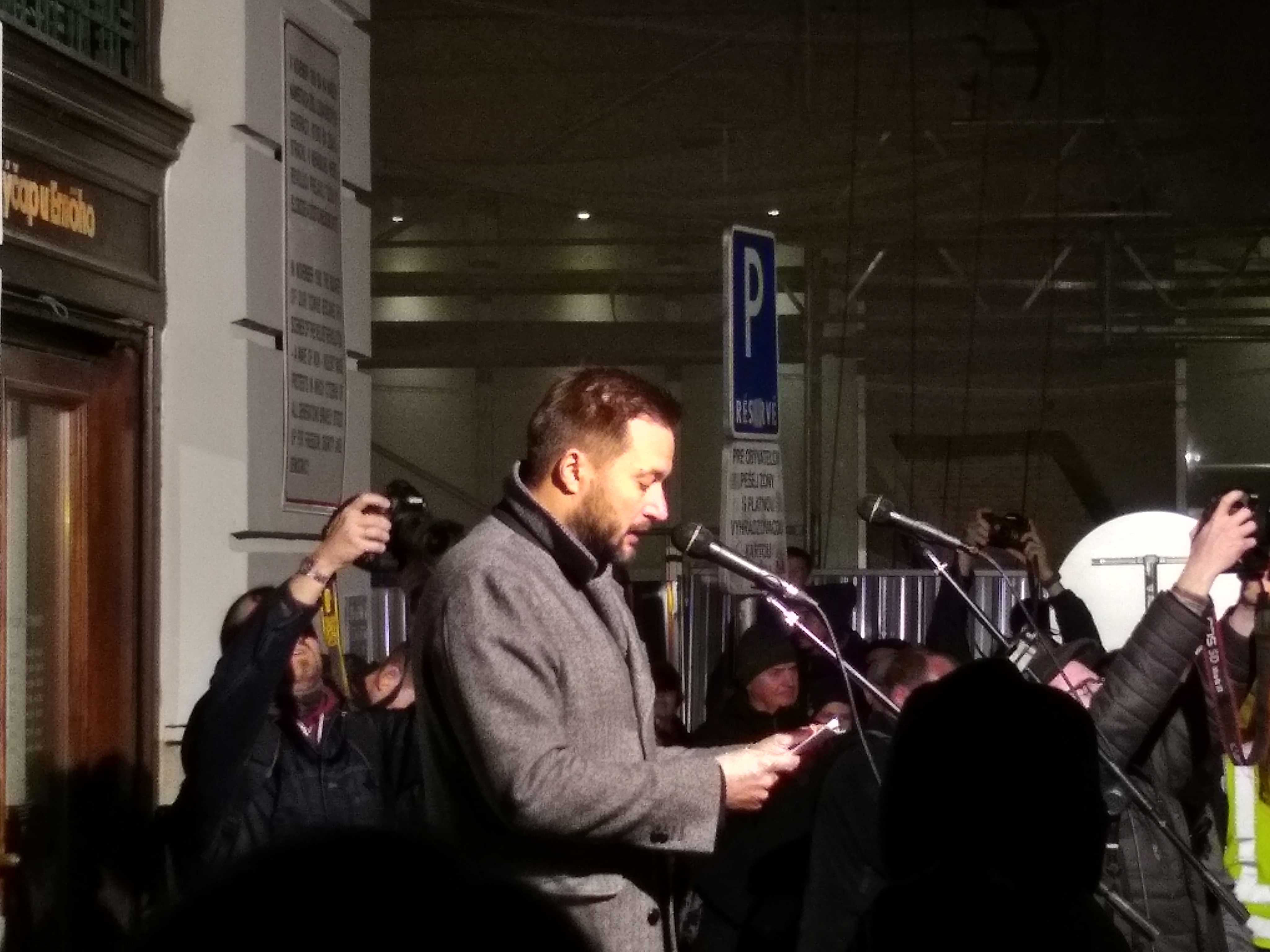 Matúš Vallo delivers a speech dedicated to the 30 anniversary of the Velvet Revolution at the ceremony of introduction of the square in Bratislava named after the Velvet Revolution